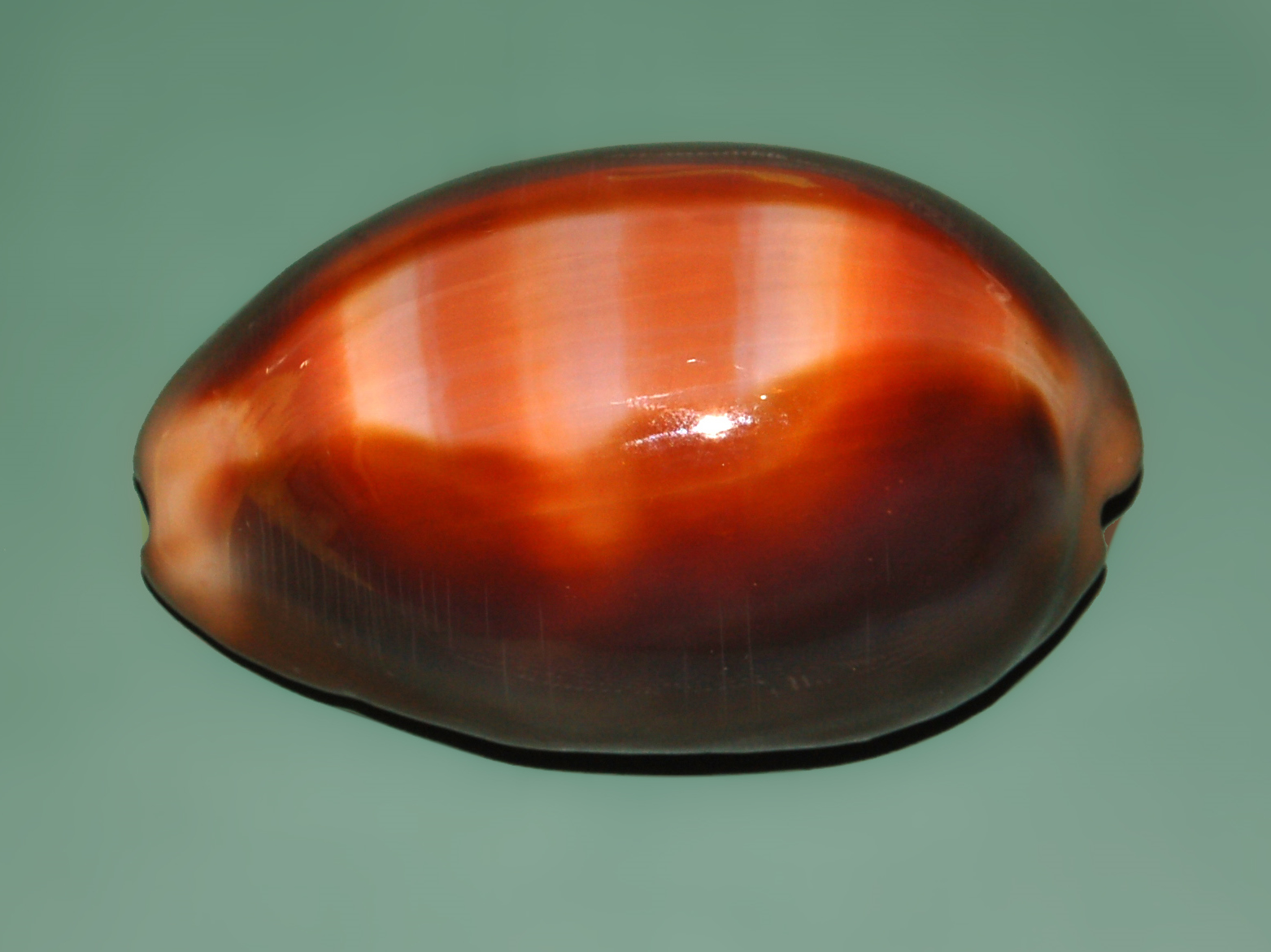 Lyncina ventriculus, Leyete, Philippines